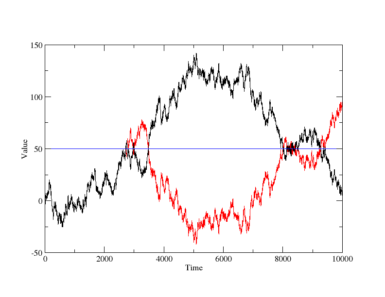 The plot shows a simulation of a Wiener process (+/-1 unit steps) and its reflection at a crossing point. Used to illustrate the Reflection principle in probability theory.